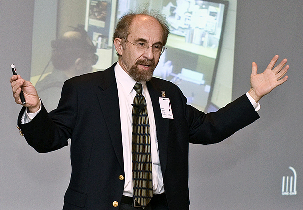 Henry Fuchs speaking at the Pearl Young Theater at NASA Langley